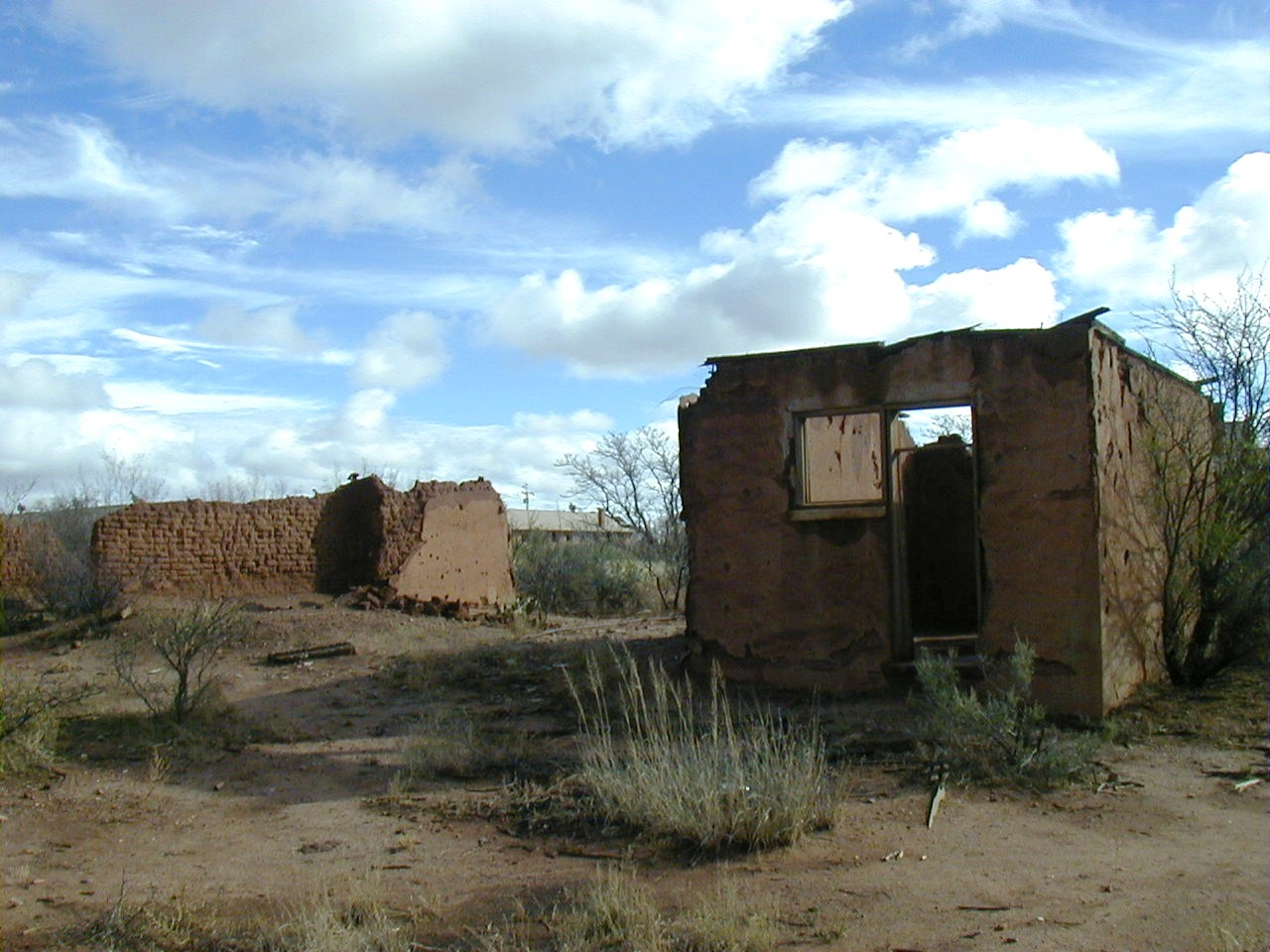 Located on the outskirts of the border town of Naco, Arizona.